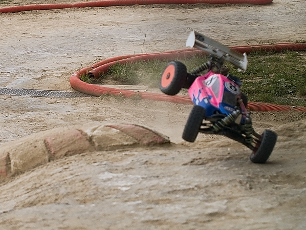 An 1:8 four-wheel drive off-road racing buggy in action